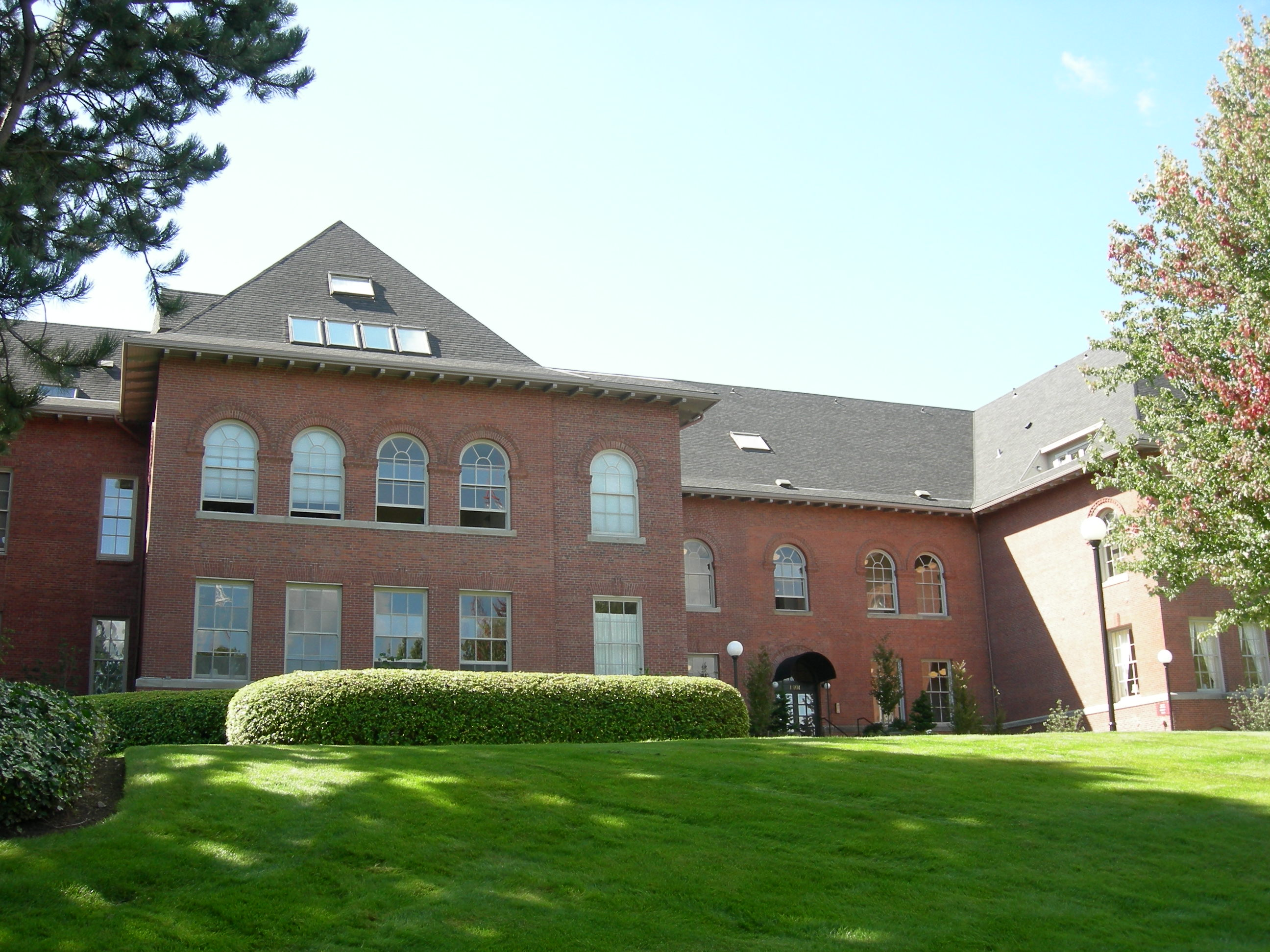 West Queen Anne Public School, Seattle, Washington, also known as Queen Anne Public School, West Queen Anne Elementary School, Queen Anne School, etc., is on the National Register of Historic Places, ID #85002916 (the Register uses the name Queen Anne Public School). The building is now condominium apartments.